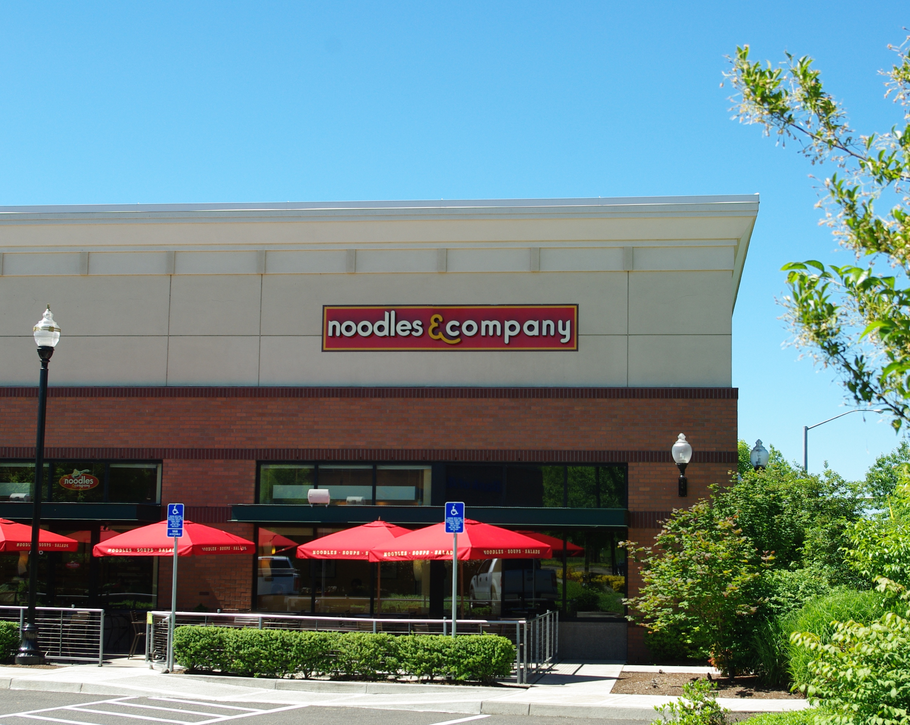 Noodles & Company in Hillsboro, Oregon.